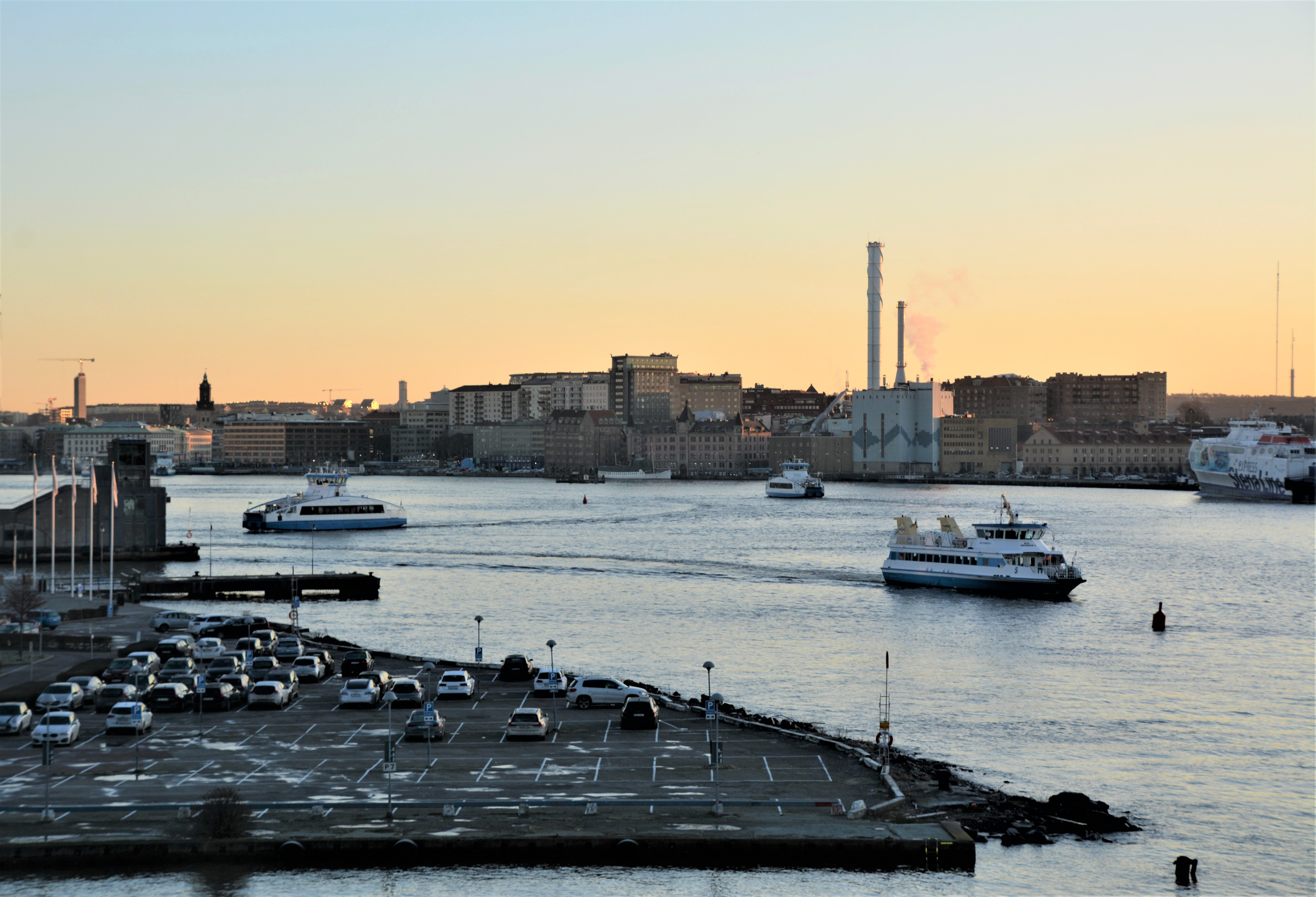 Passenger ferries, from left Elvy, Älvfrida and Älv-Snabben Göteborg, on route to and from Lindholmspiren in Göteborg, Sweden